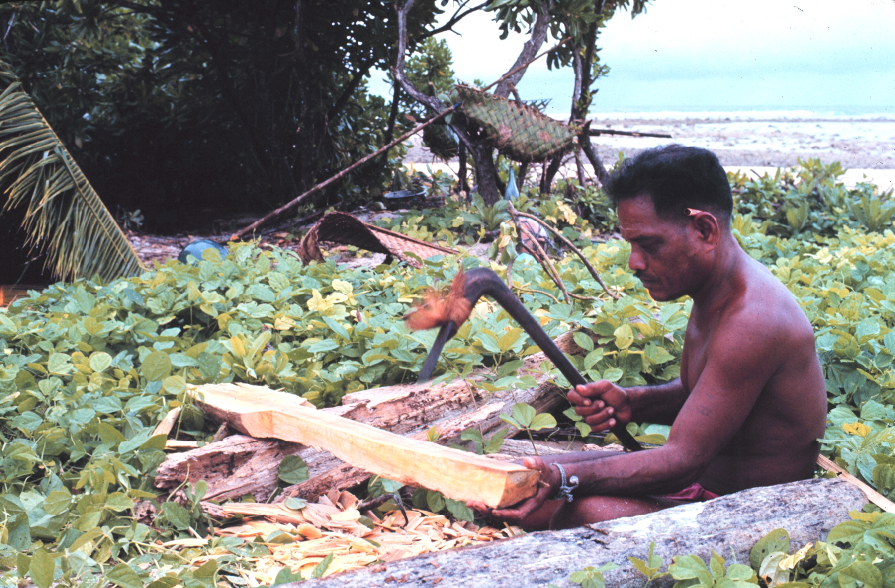 "Native Micronesian making a paddle with an adze for his outrigger canoe. Image ID: mvey0054, NOAA's Small World Collection Location: Tobi, Western Caroline Islands Photographer: Dr. James P. McVey, NOAA Sea Grant Program" Date not specified.